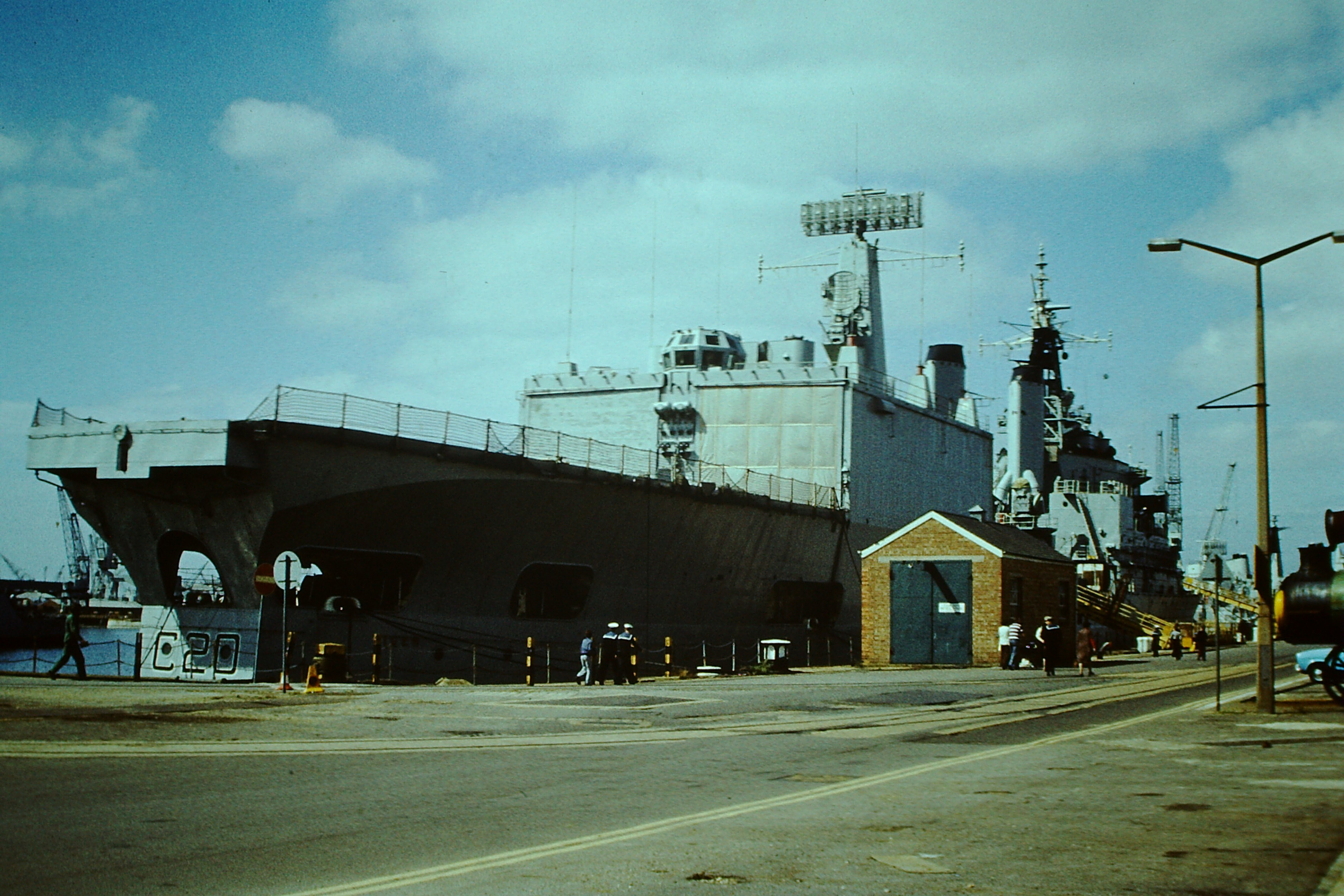 "Modified Minotaur" or "Tiger" Class light cruiser "HMS Tiger", 11,700 tons, launched 1945, completed 1959 and converted to a helicopter cruiser (12,800 tons) in 1968-72, probably the most expensive, unsuccessful rebuilds the RN ever undertook! At the Portsmouth Navy Day, 08/80. Scanned slide.